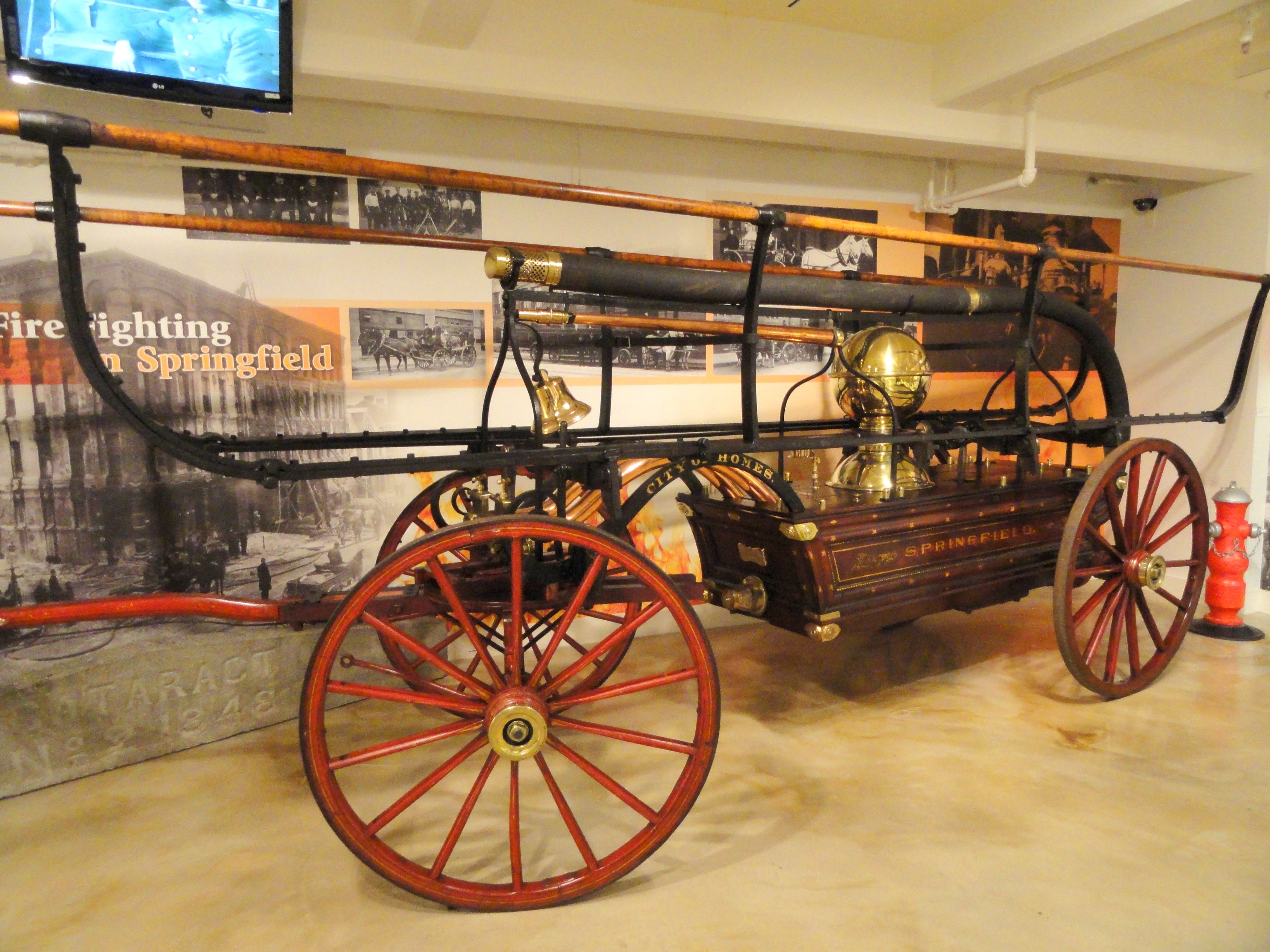 Exhibit in the Lyman & Merrie Wood Museum of Springfield History, Springfield, Massachusetts, USA. This exhibit is old enough so that it is in the public domain. This is a suction engine with a squirrel tail mounted suction hose